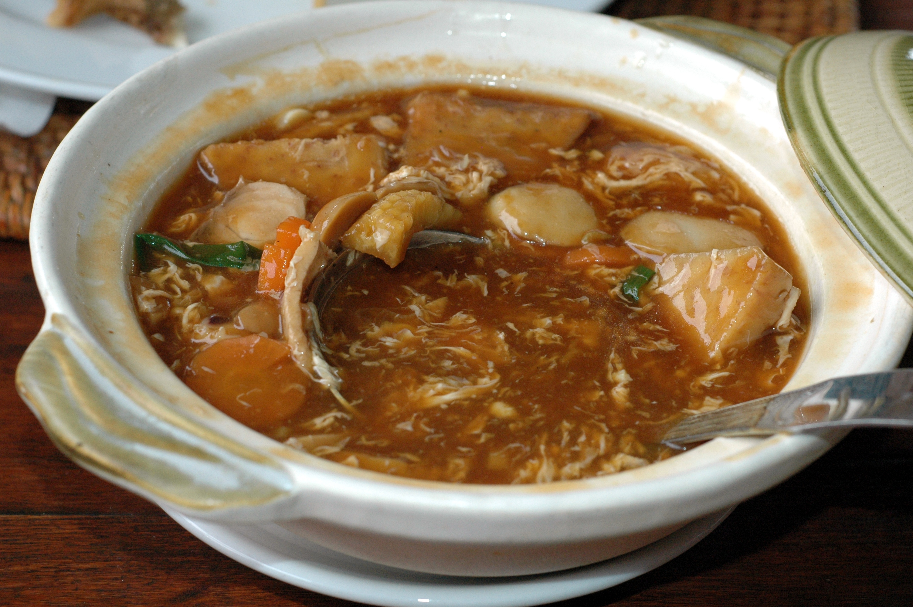 Seafood and tofu claypot (sapo). Tastes better than it looks..., Bintan.